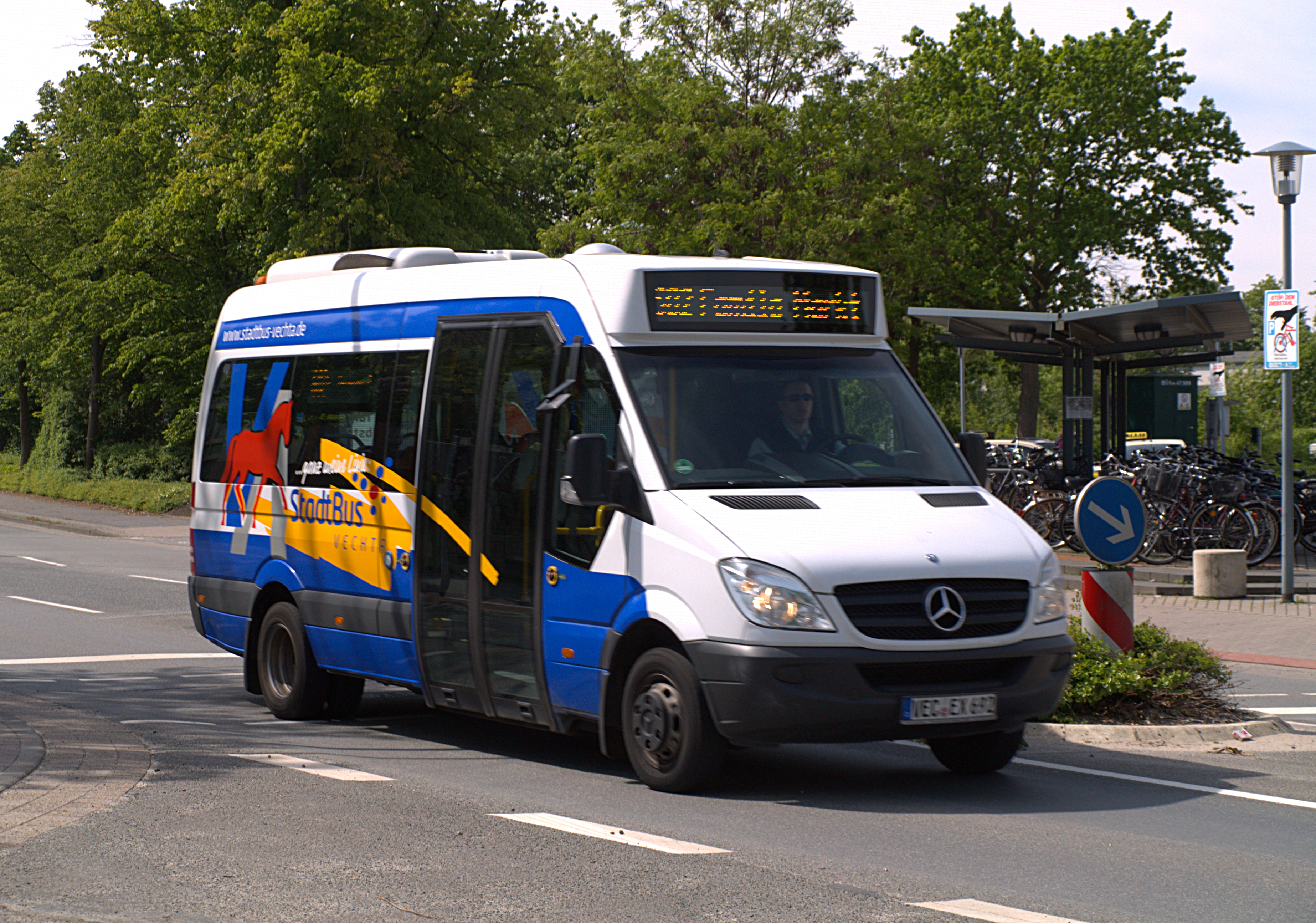 Mercedes-Benz Sprinter City 35 II minibus on service in the town of Vechta, Lower Saxony, Germany under the brand "StadtBus Vechta", is passing Vechta train station on route 602 (Diepholz Street → Famila Market).